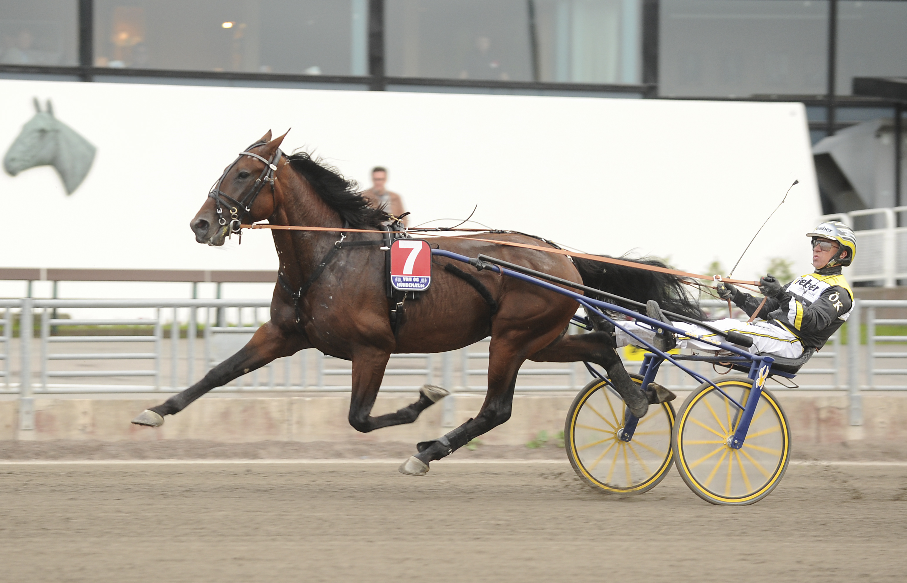 foto : lj : al dente och örjan kihlström